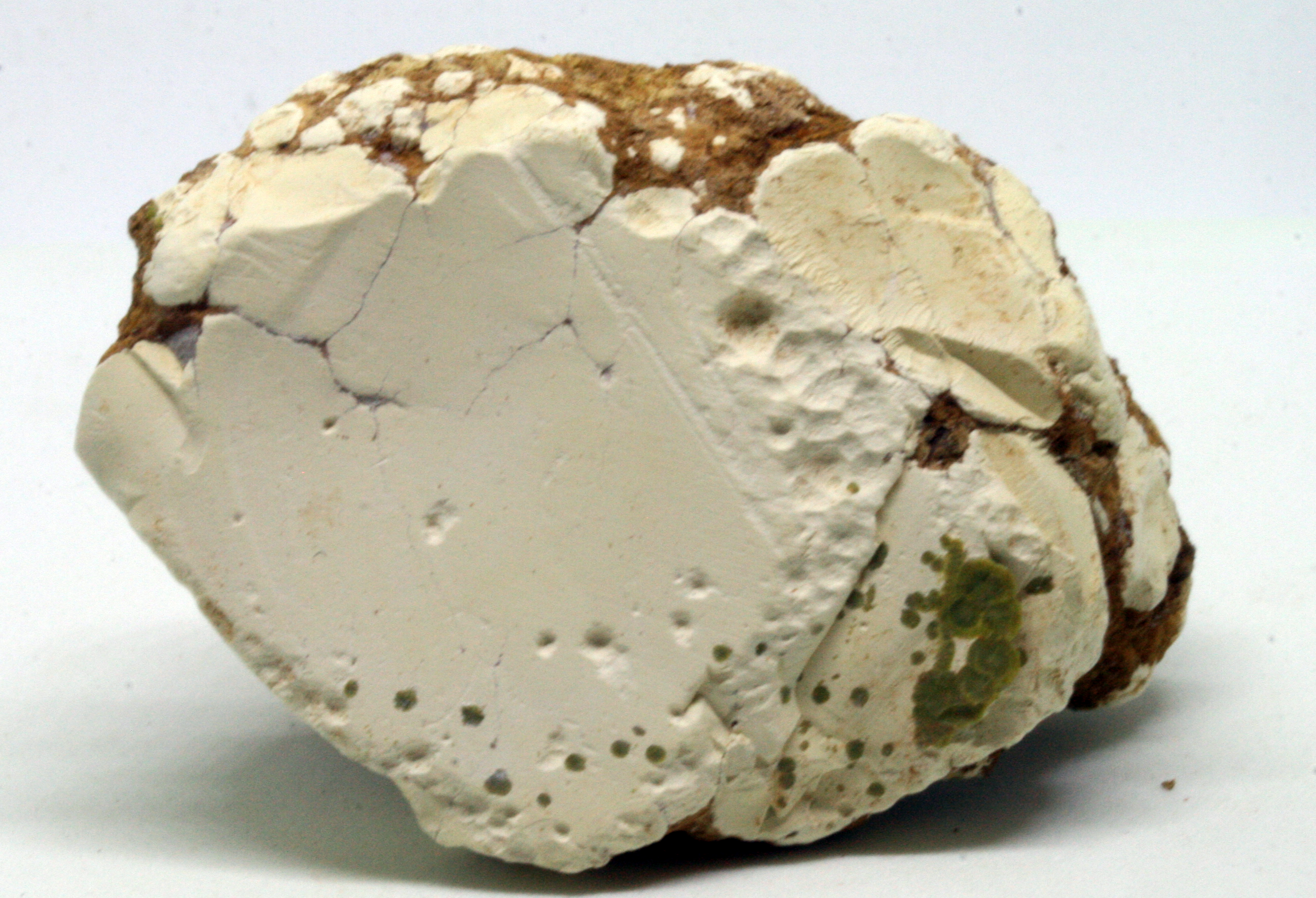 Tinticite (cream) with calcioferrite (green). Elvira mine, Gavá (Barcelona) Spain